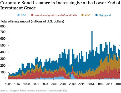 The total offering amount, over time, of bonds issued with credit ratings of AAA; investment-grade, excluding AAA and BAA (also BBB); BAA; and high-yield. The chart shows that, while high-yield issuance has been declining since 2012, investment-grade issuance has been increasing, with BAA issuance matching or exceeding high-yield issuance in every quarter since the fourth quarter of 2016.